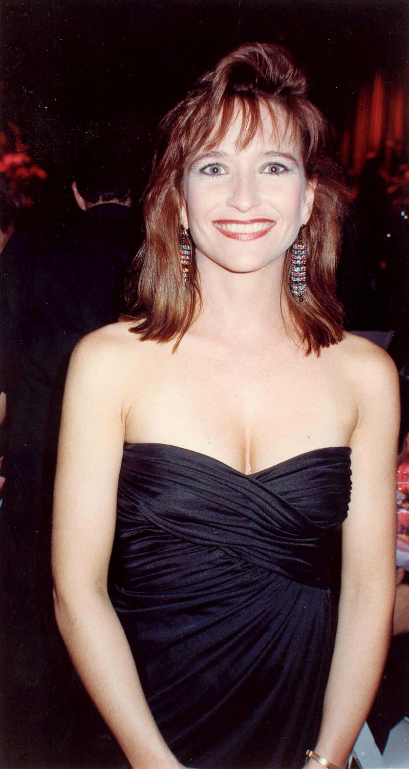 Actress/comedian Jan Hooks at 40th Emmy Awards